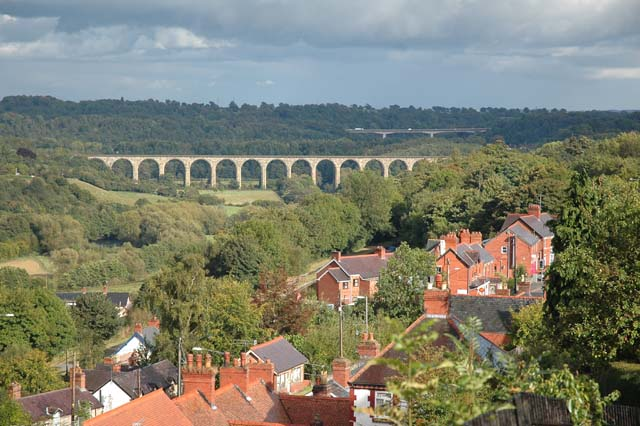 Newbridge Viaduct from Froncysyllte, near to Froncysyllte, Wrexham/Wrecsam, Wales. Newbridge Viaduct spans the Dee valley and carries the railway line that runs from Chester to Shrewsbury. It was built by Henry Robinson, a Scottish engineer, in about 1856.